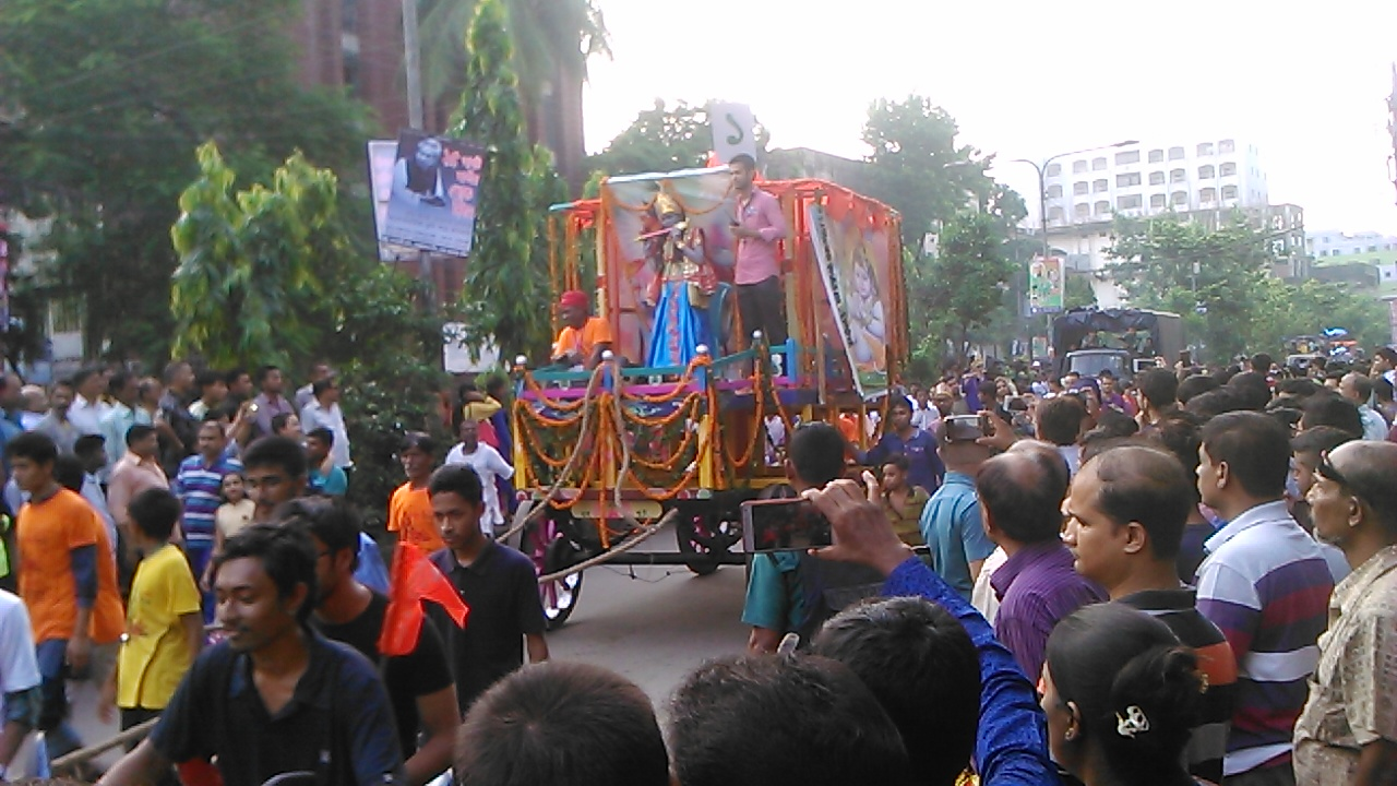 Janmashtami Rally in Dhaka